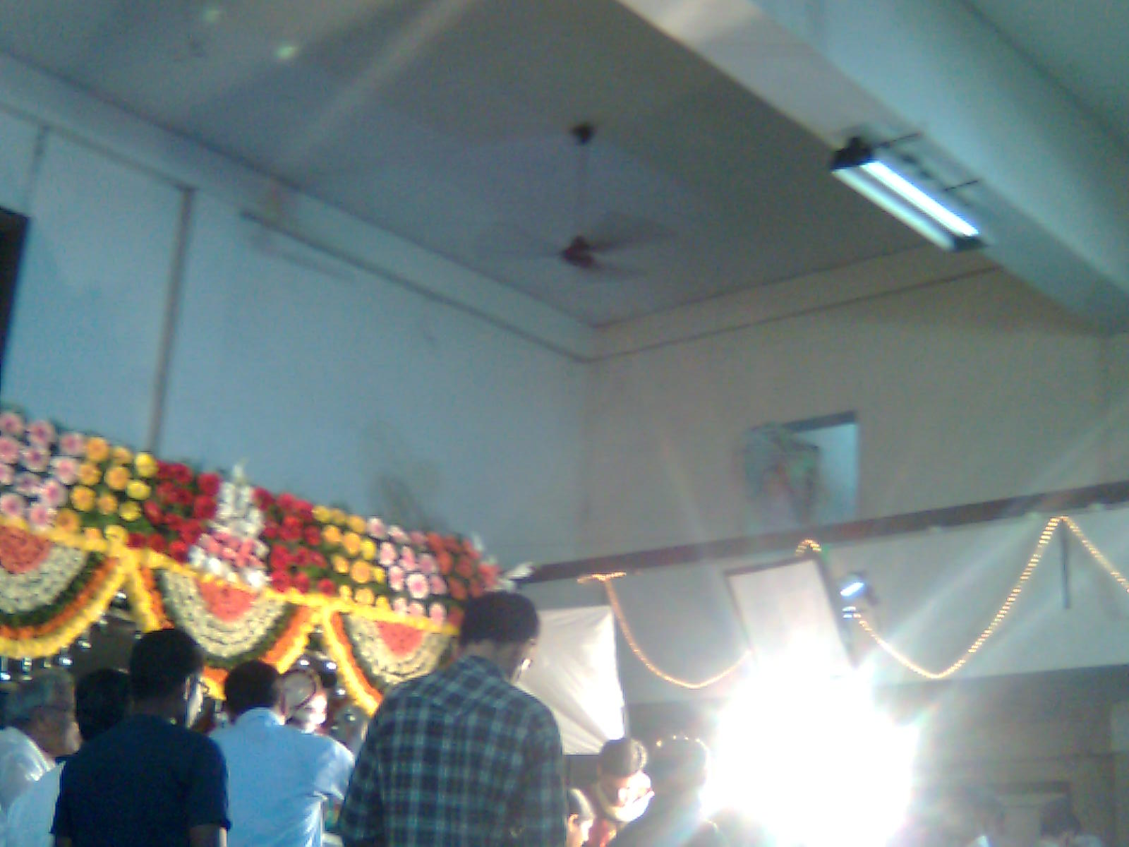 Hindu marriage mandapam